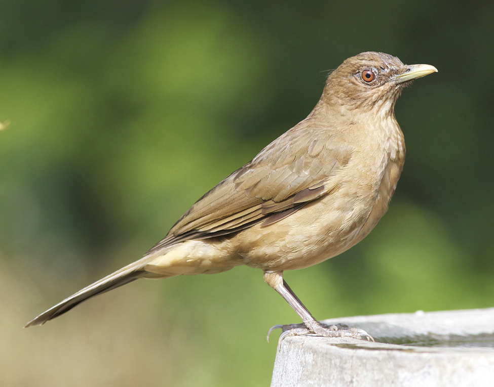 Clay-colored Thrush photo taken at Hotel Bougainvillea, Costa Rica.